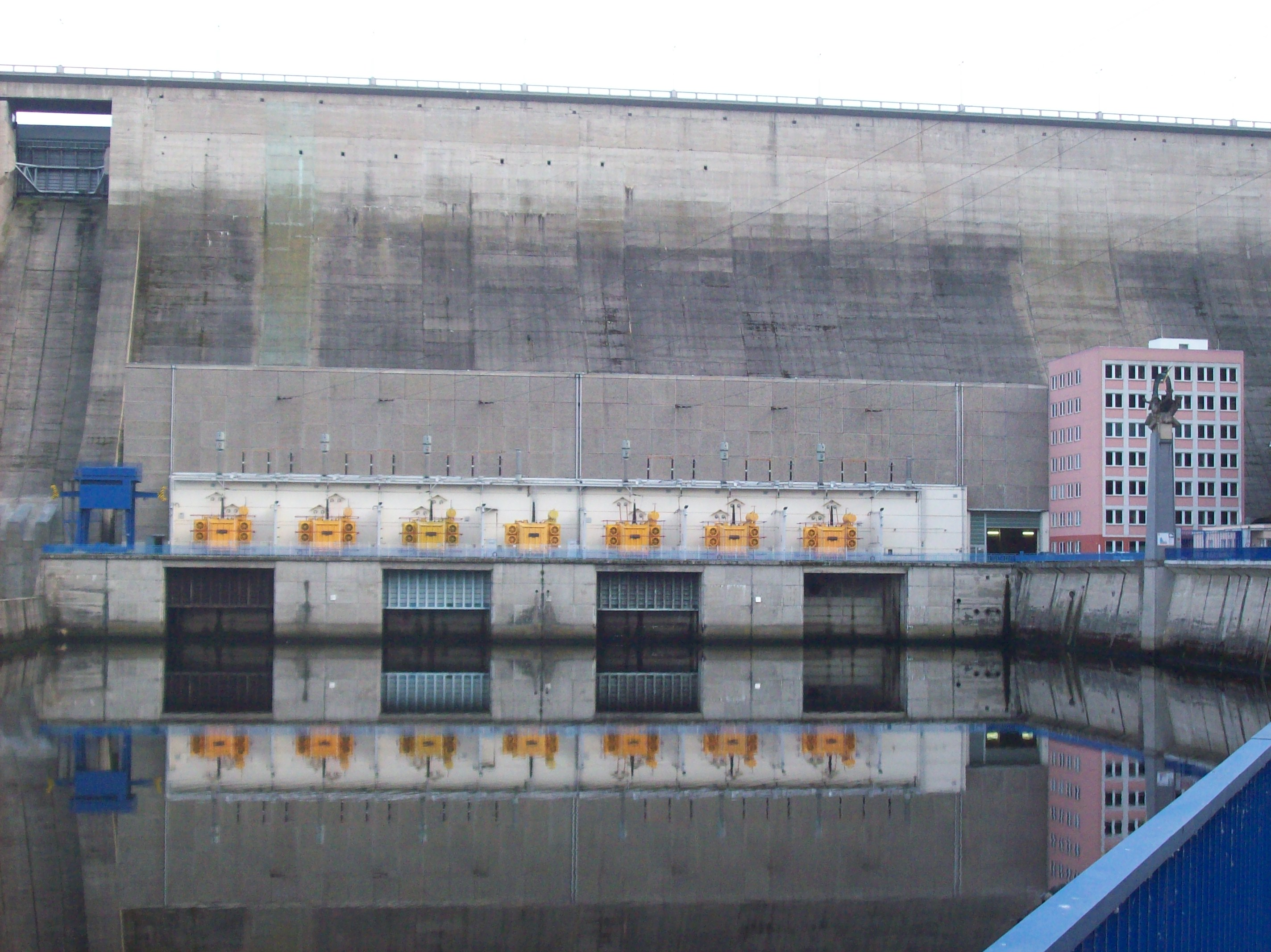 Orlík power plant